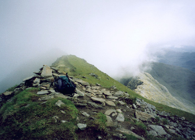 The summit cairn on Ladhar Bheinn. Looking past the summit cairn of Ladhar Bheinn (pronounced Laarven) to the lower reaches of the SE ridge.